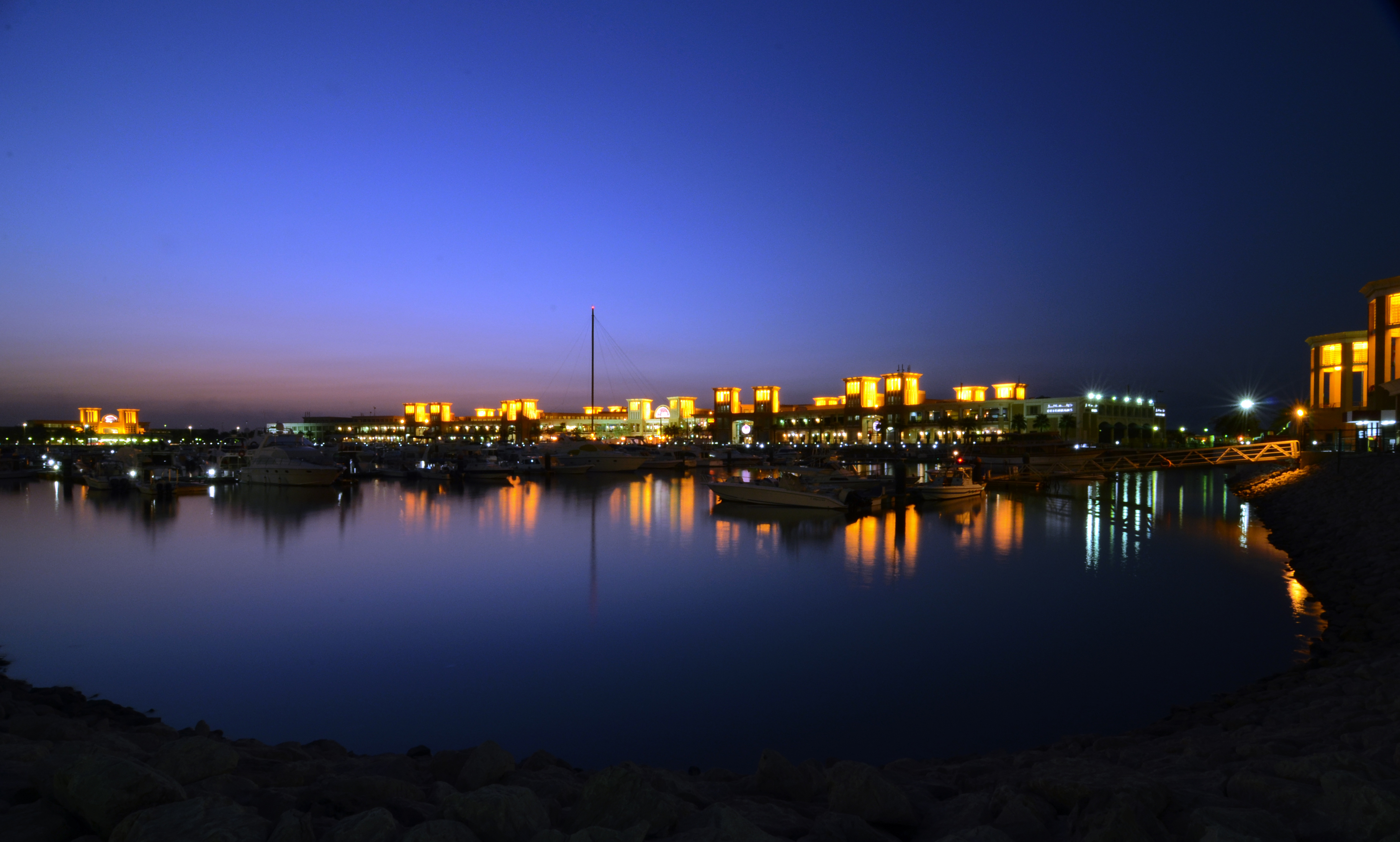 Blue Hours of Souq Sharq